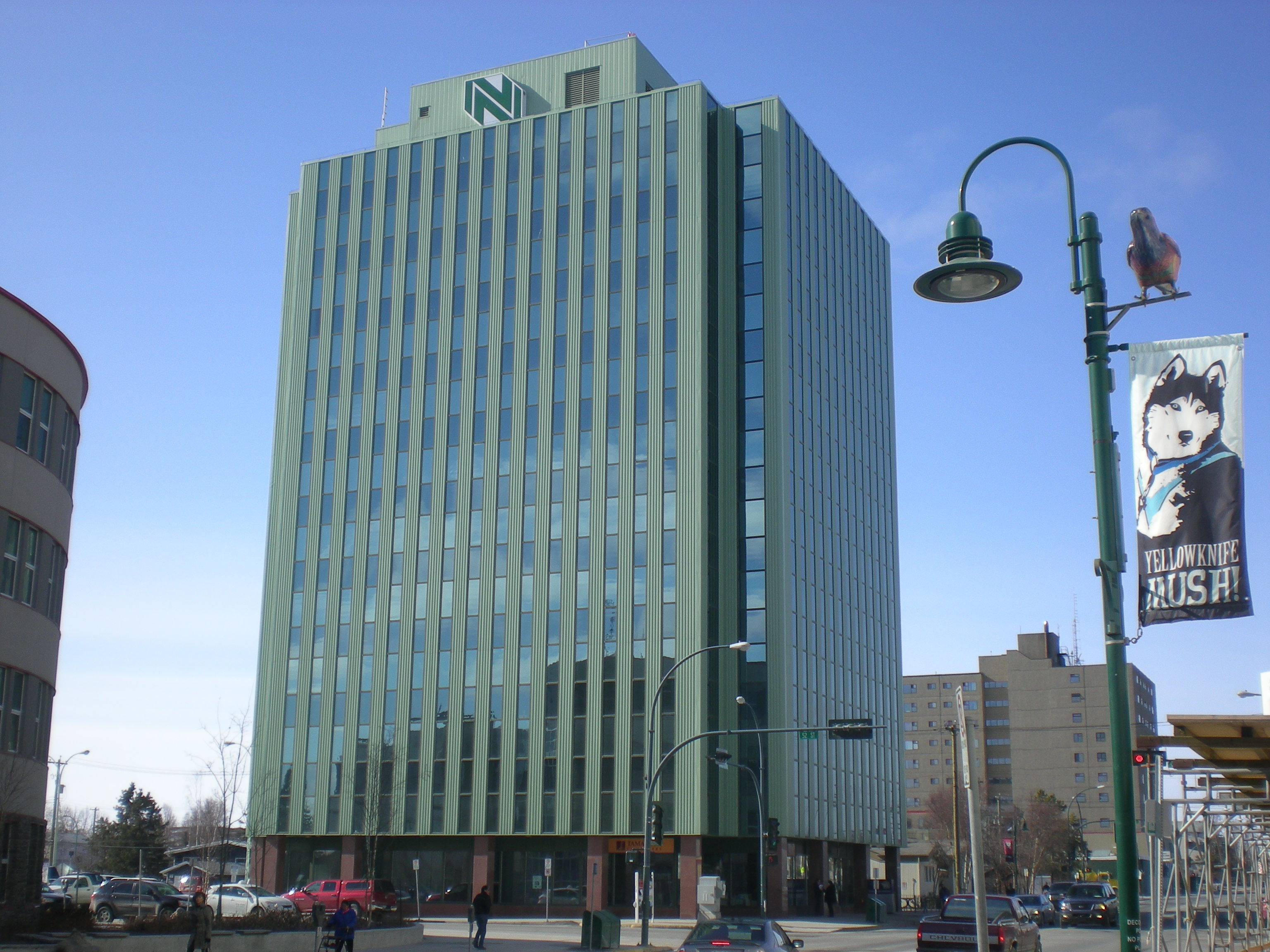 The third tallest building in Yellowknife